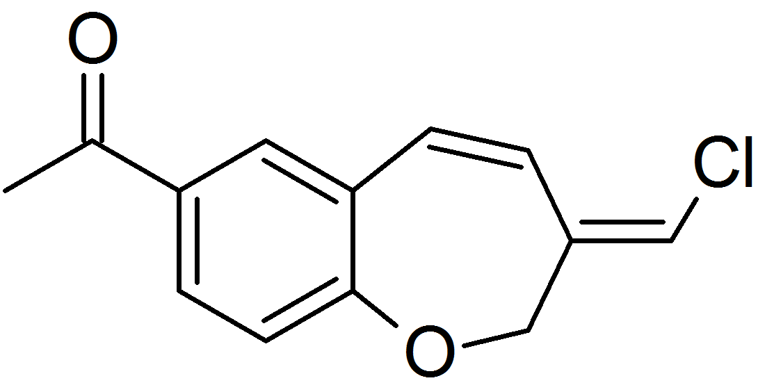 Pterulone